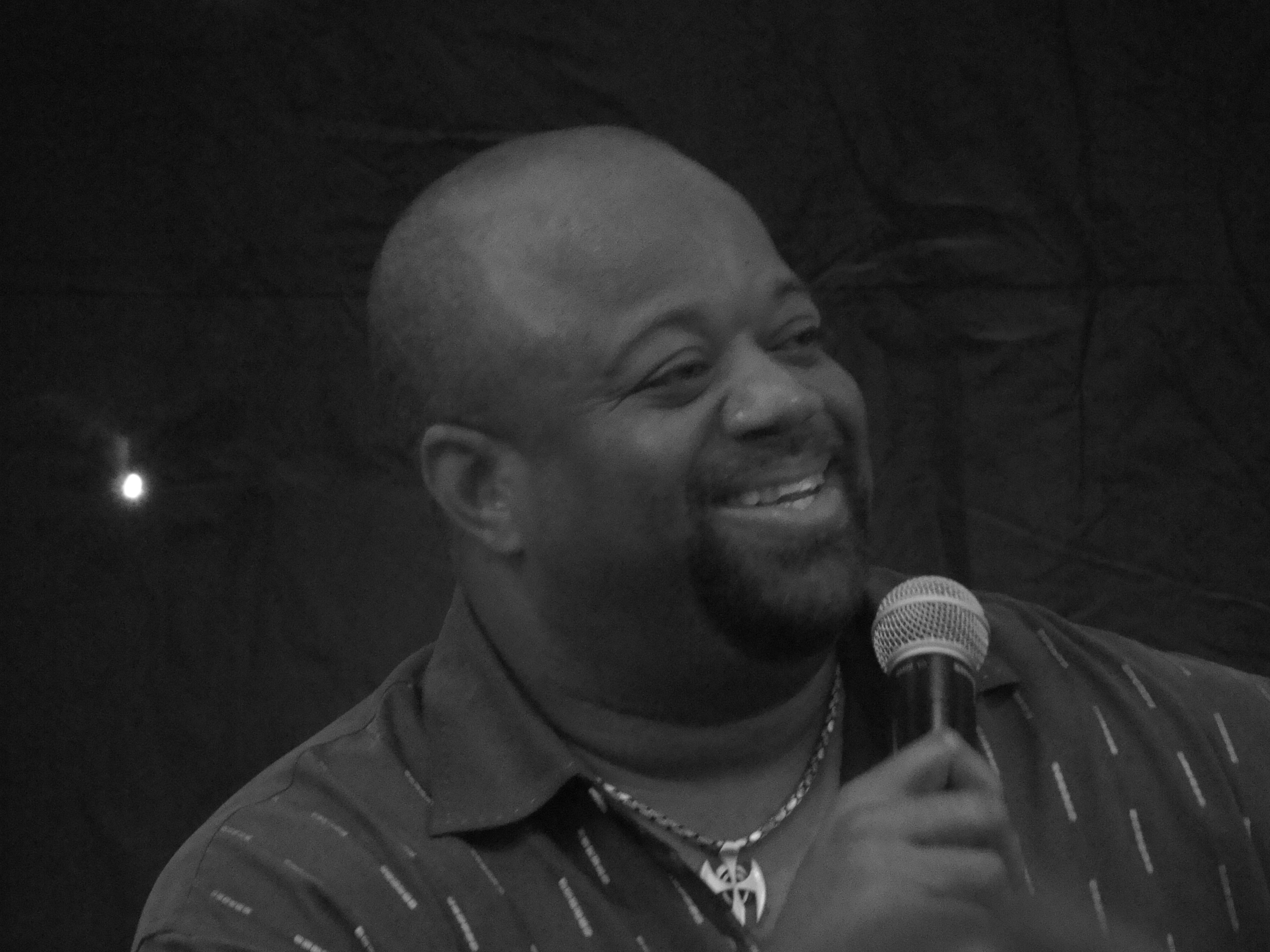 Mark Christopher Lawrence